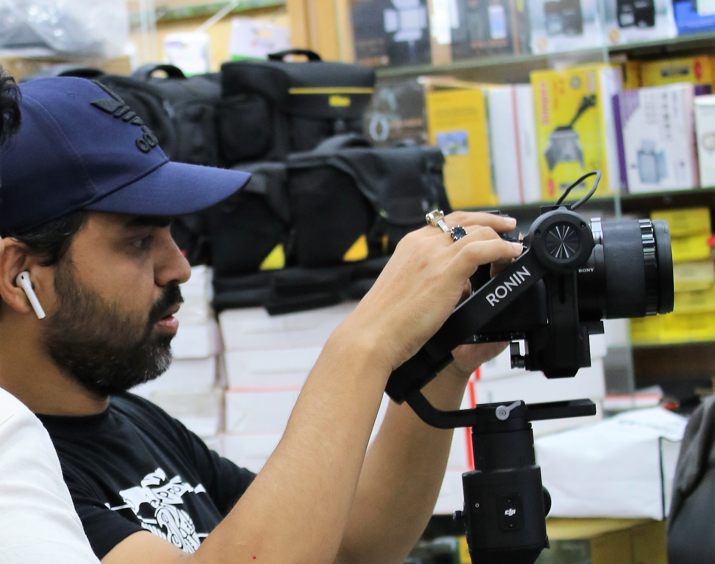 Habib Wahid is a Bangladeshi composer, musician and singer.